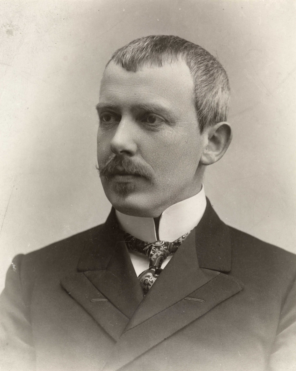 Norwegian professor of social economics Oskar Jæger (1863-1933)